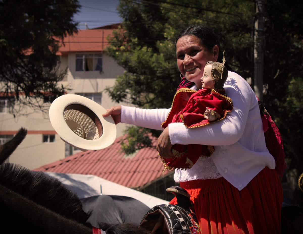 Woman (chola cuencana) with a reproduction of the Niño Viajero image, during the 2013 Pase del Niño Viajero in Cuenca, Ecuador.